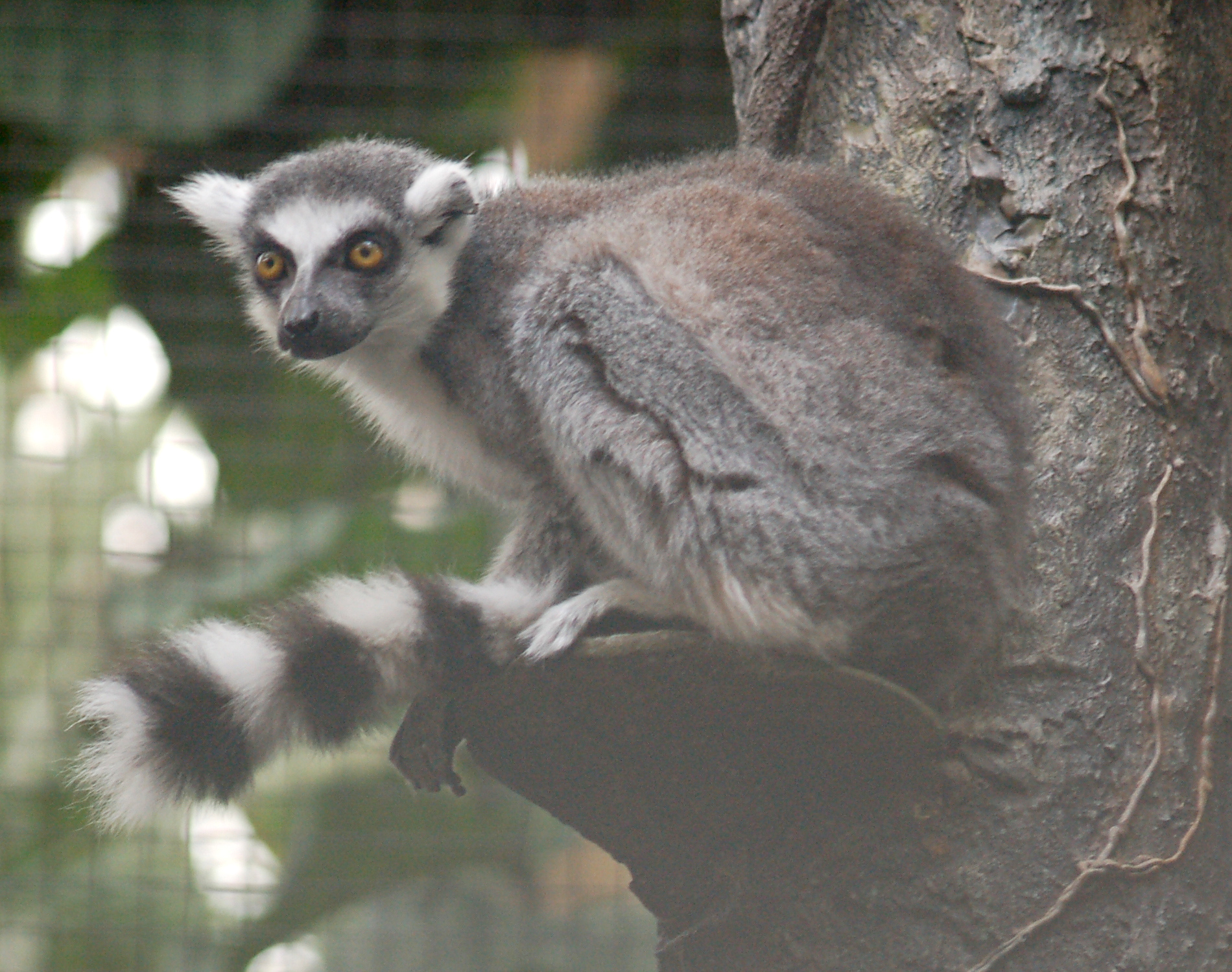 A photograph of a lemuren (Lemur catta en ). Photo taken at the Pittsburgh Zoo.